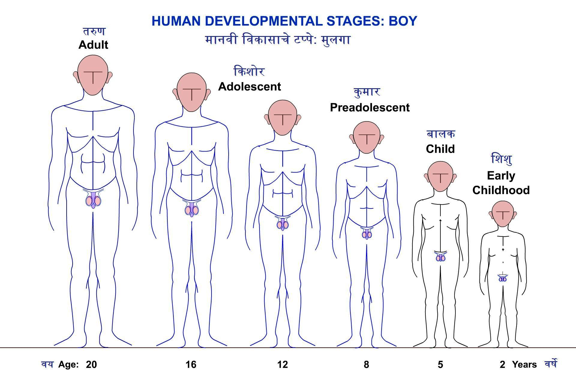 Representative figures of stages of development of a Boy from early childhood to adulthood.